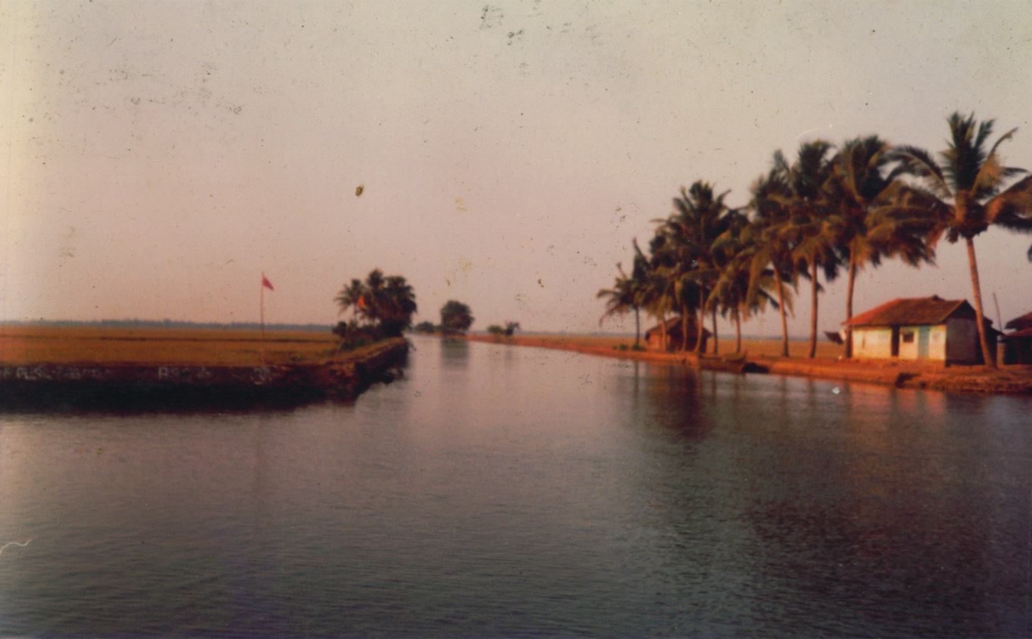 canals in kuttanad